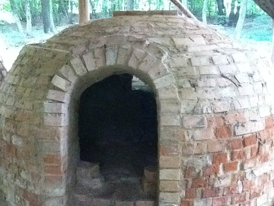 Door of 18th century glassblowers oven, Pusztabánya, Mecsek mountains in Southern Hungary.